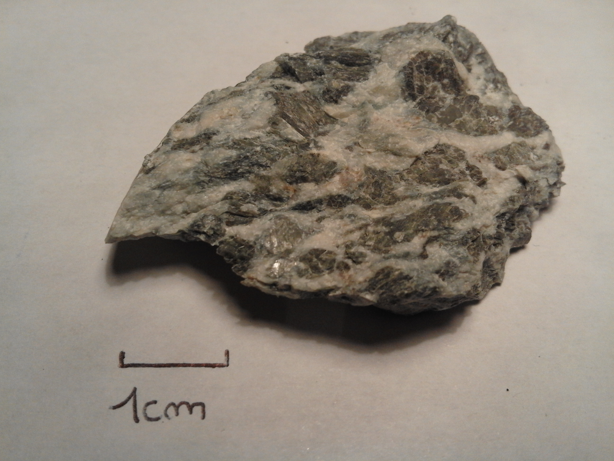 Green gabbro